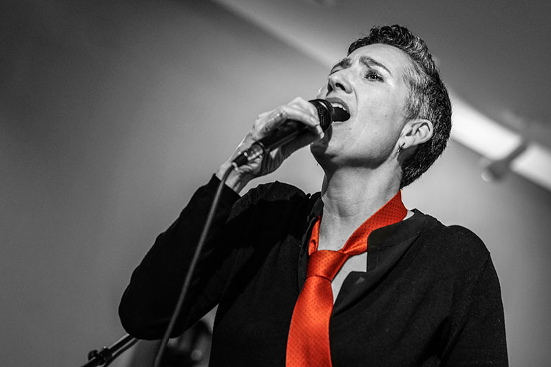 Trinelise Væring in Aarhus 2018